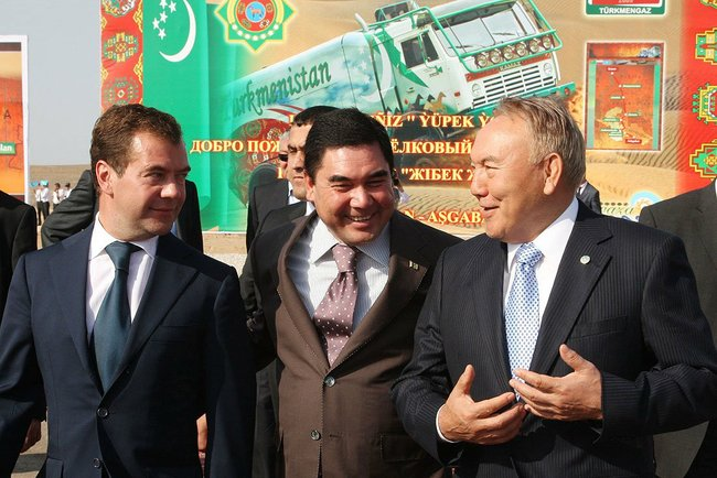 TURKMENBASHI, TURKMENISTAN. At the ceremony marking the final stage of the Silk Way Rally Dakar Series 2009. With President of Turkmenistan Gurbanguly Berdimuhamedov (centre) and President of Kazakhstan Nursultan Nazarbayev.